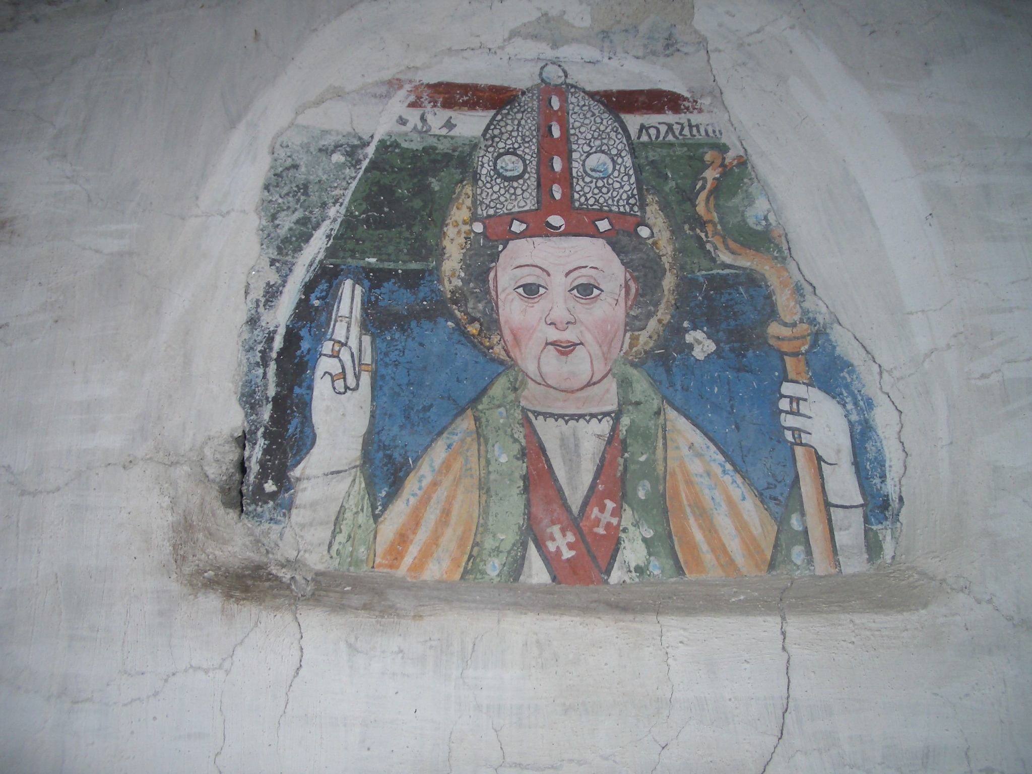 Unknown painter of XV century, St Martin, detail, the fresco is signed with the name "Franciscus", Oratorio di San Martino, Piaggiogna di Boccioleto, Vercelli, Italy